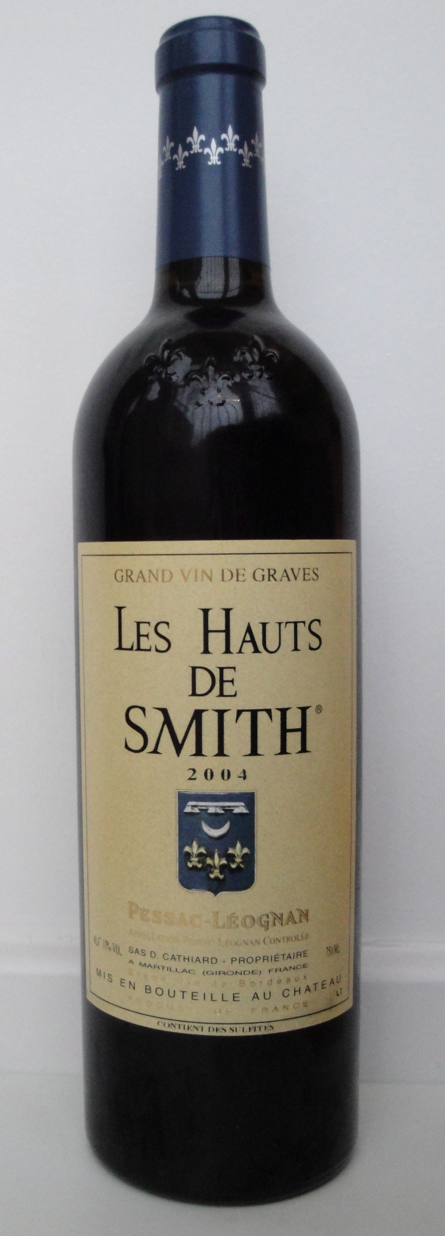 2004 Les Hauts de Smith, second wine of Château Smith Haut Lafitte, a wine from Pessac-Léognan in Bordeaux.